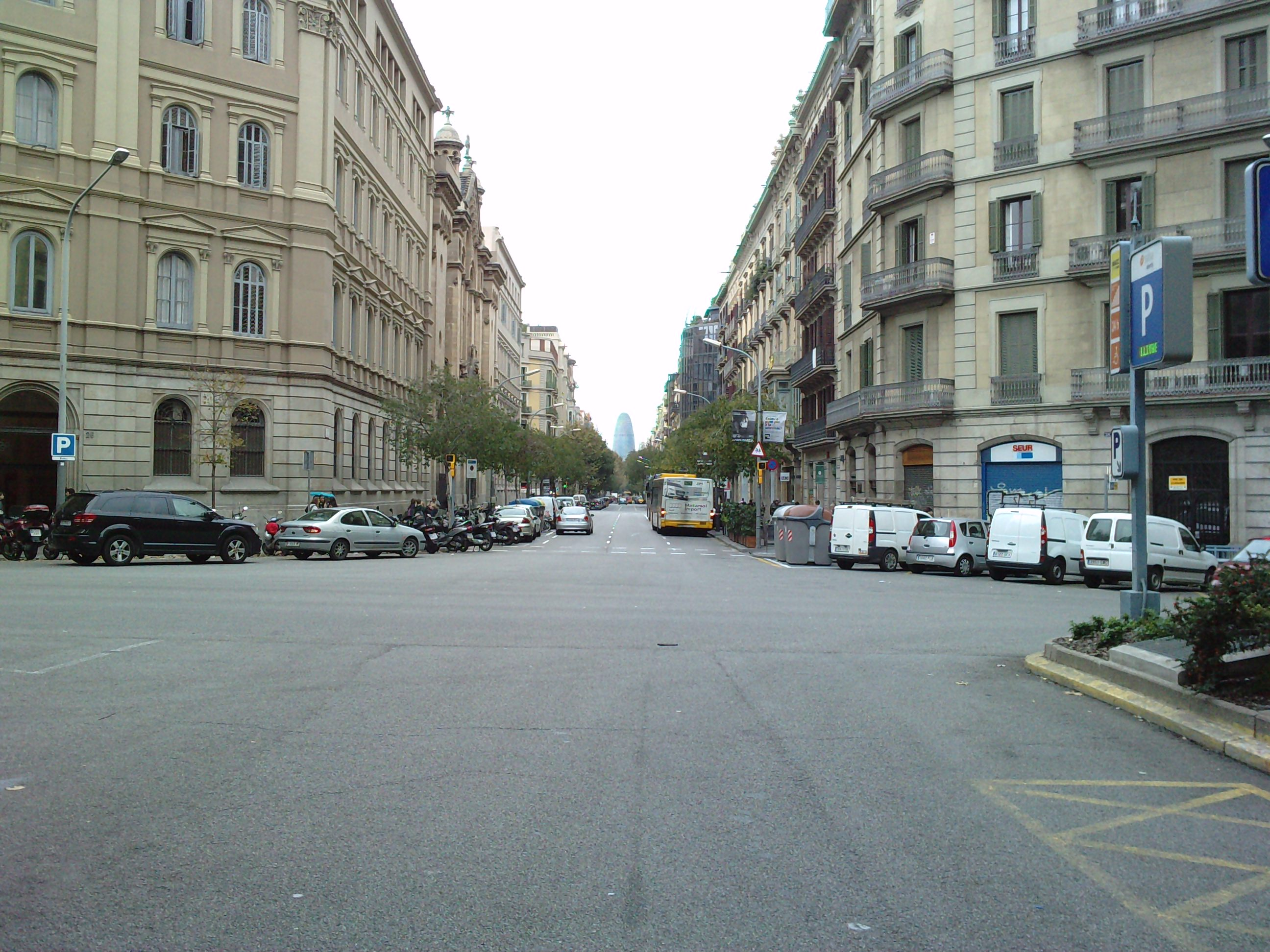 Carrer de Casp. Street in Barcelona. With Agbar Tower at the end of the view